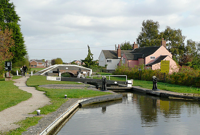 Bagnall Lock at Alrewas, Staffordshire Lock No 13 of the 76 locks on the Trent and Mersey Canal. Construction of the canal started in 1766 and it was opened fully in 1777, James Brindley being the engineer. The yellow sign informs navigators of the prevailing status of the River Trent section of the canal beyond the next lock.